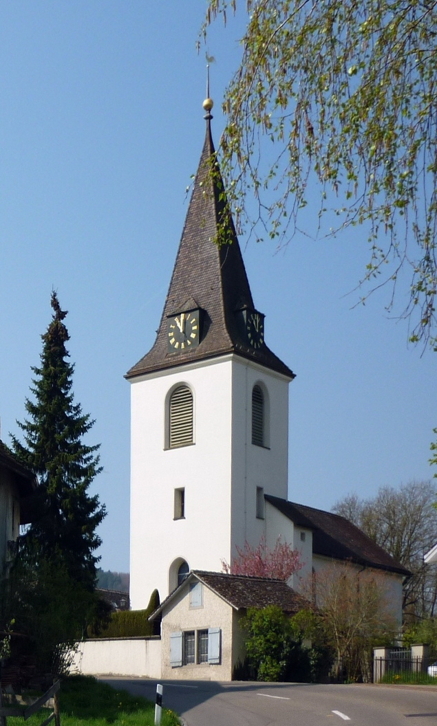 Church, Berg am Irchel ZH, Switzerland